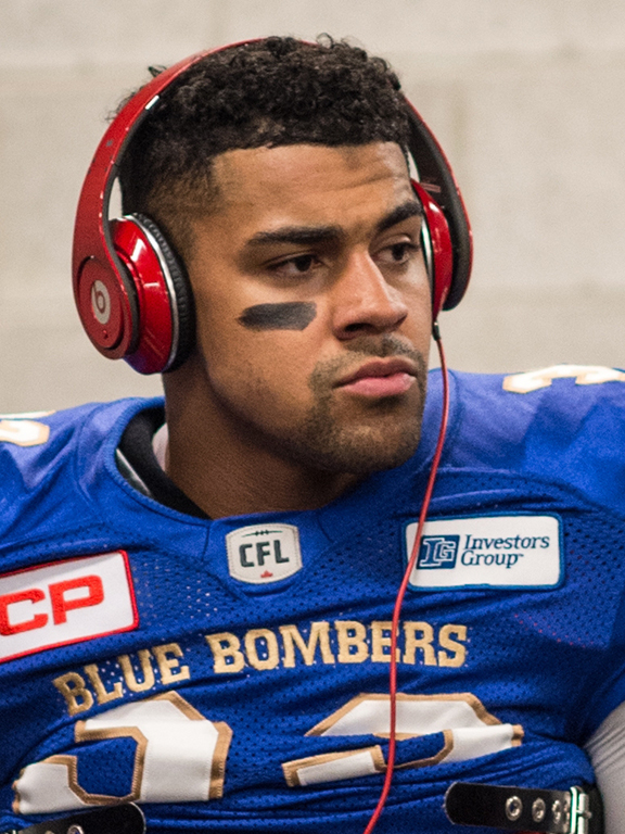 Andrew Harris (33) before the pre-season game at TD Place in Ottawa, ON on Monday June 13, 2016. (Photo: Johany Jutras)